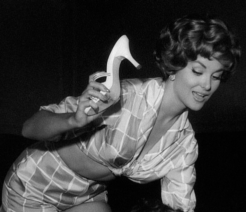 The French actress Christiane Martel, voted Miss Universe in 1953, tries to awaken with a shoe the Italian actor Ugo Tognazzi, who placidly sleeps on an armchair, during the filming of Tipi da Spiaggia. Italy, 1959.